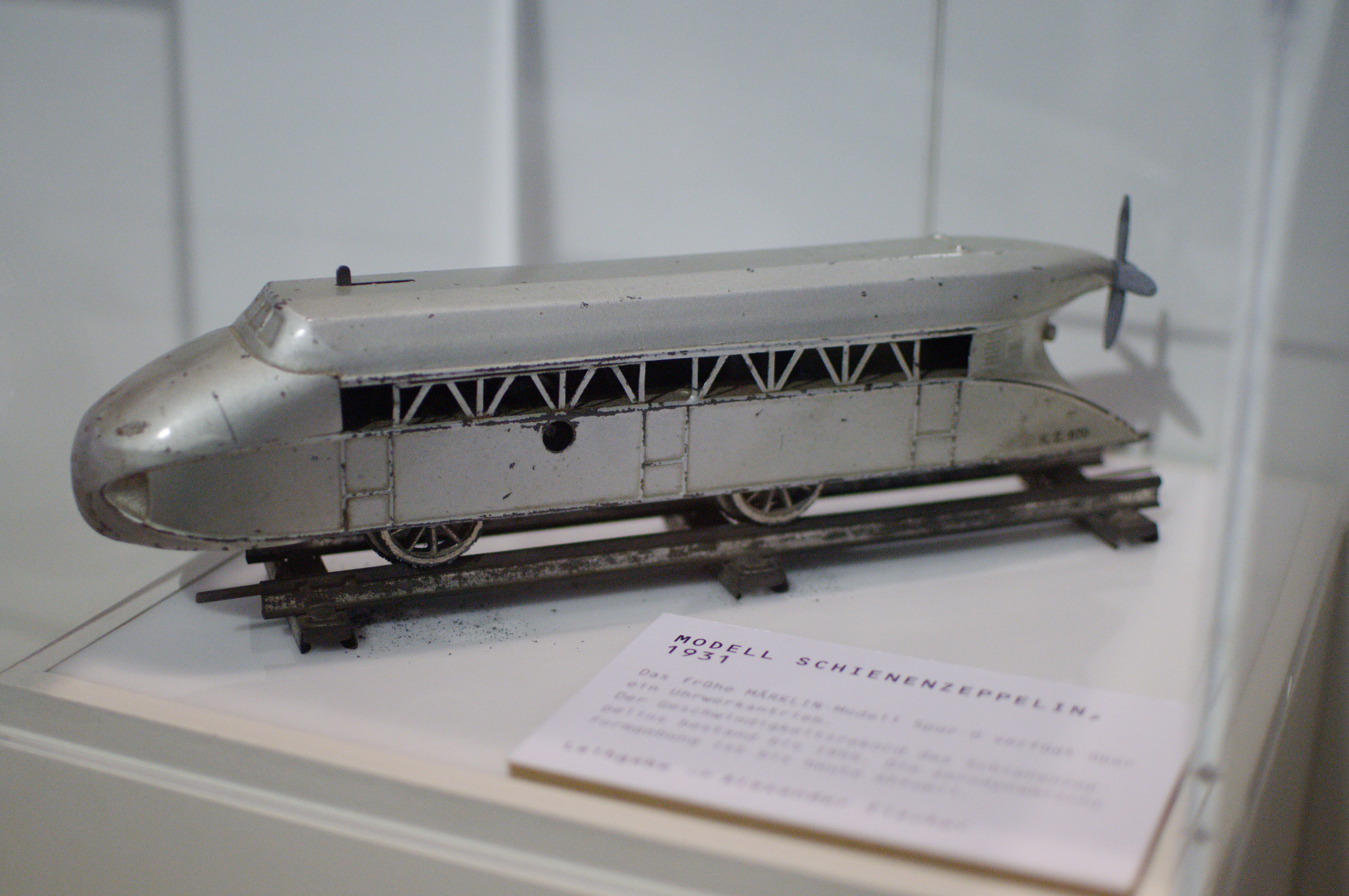 Model of Schienenzeppelin Fotoflugkurs Cuxhaven 2013 22. - 24. Februar 2013 vom Flugplatz Nordholz-Spieka Mit Unterstützung durch die Sportfluggruppe Nordholz/Cuxhaven e. V. The making of this document was supported by the Community-Budget of Wikimedia Germany. The making of this work was supported by Wikimedia Austria. For other files made with the support of Wikimedia Austria, please see the category Supported by Wikimedia Österreich.